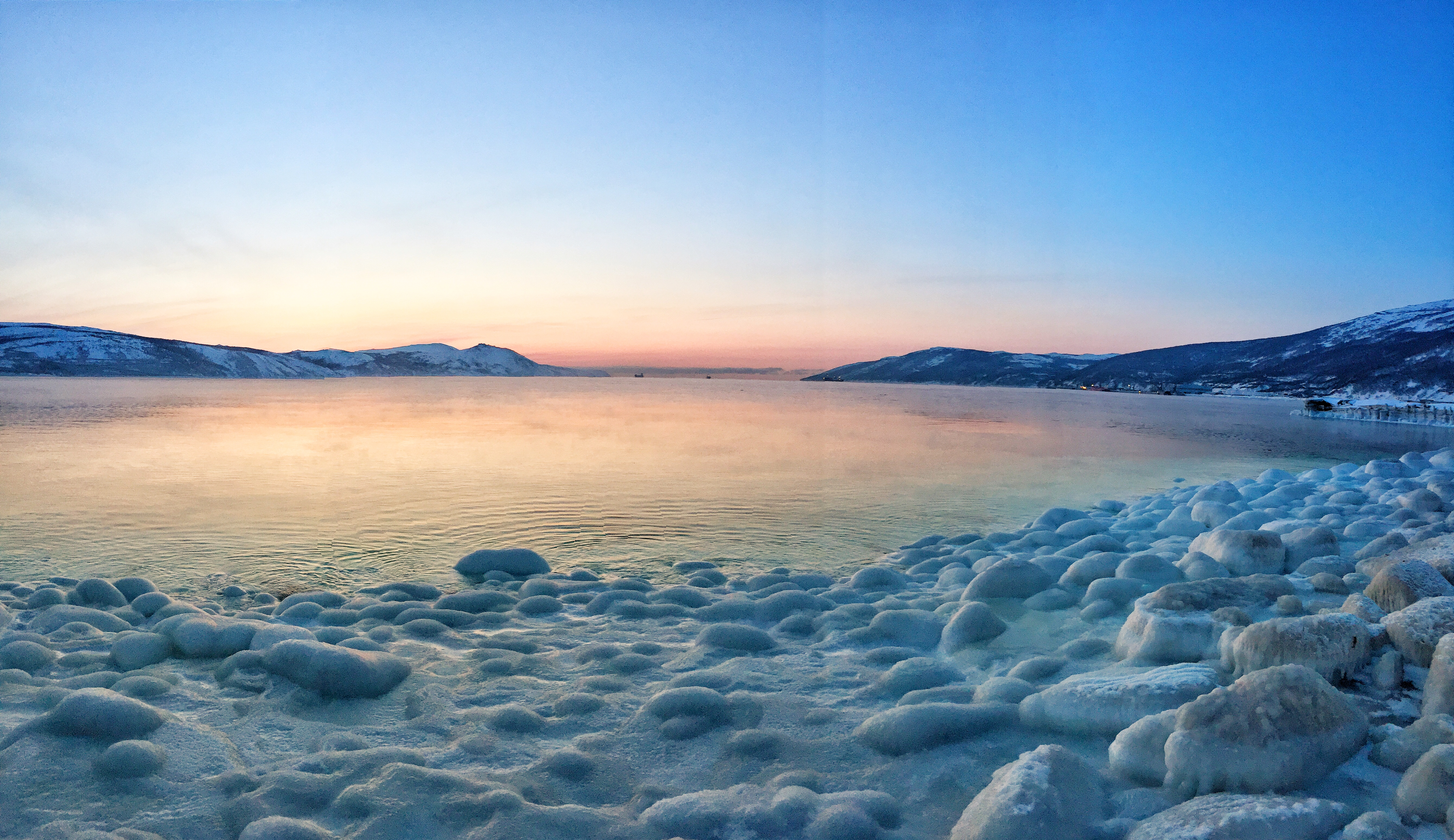 Freezing the waters of the Sea of Okhotsk.